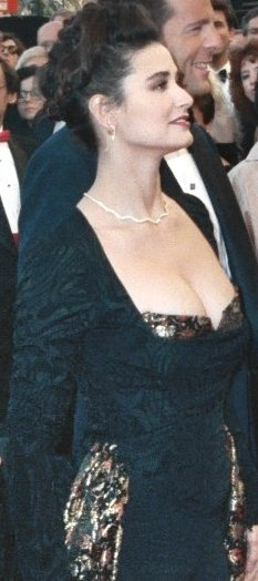 Demi Moore at 61st Annual Academy Awards, 1989. Cropped from the photo by Alan Light.